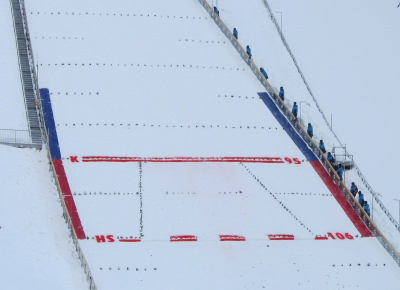 Construction point 95 m and Hill size 106 m, Predazzo jumping hill